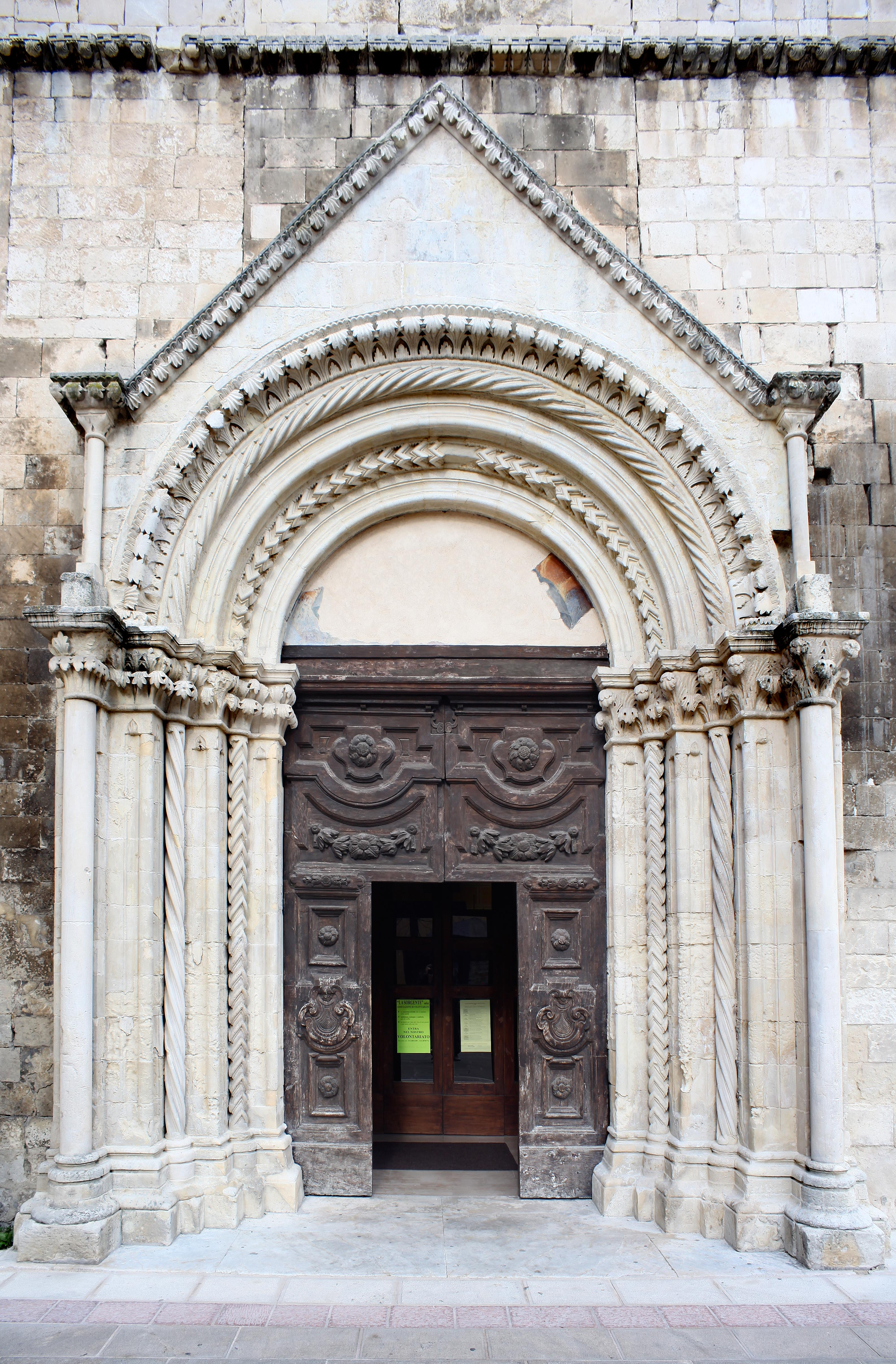 Portal of the San Francesco d'Assisi church in Guardiagrele, IT